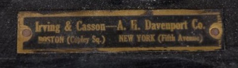 Label Irving and Casson